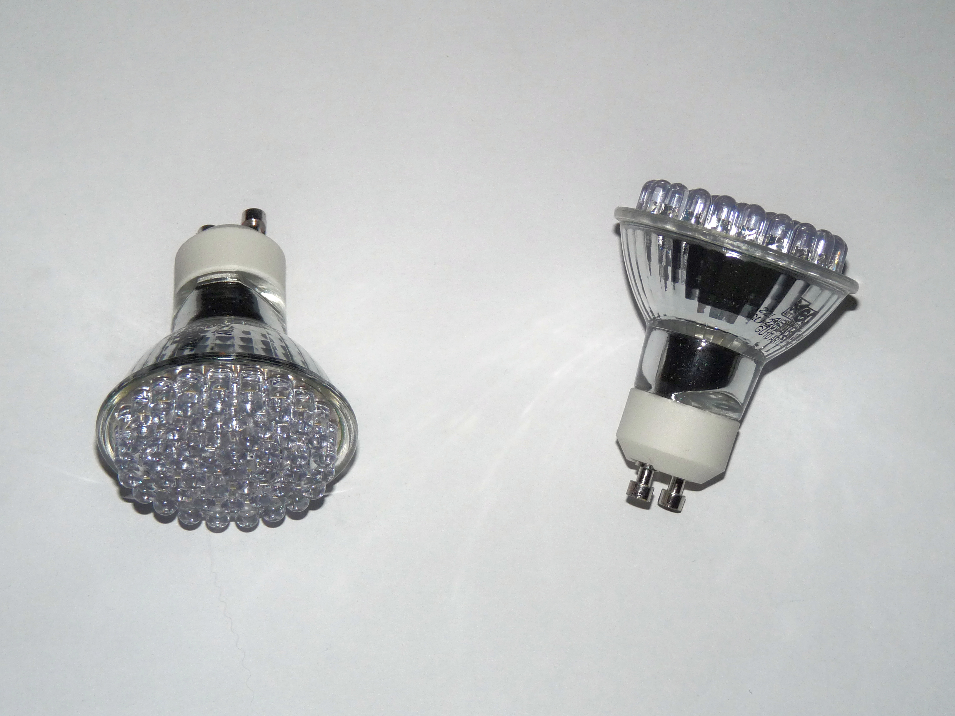 LED light bulb 3W 230W SC electric